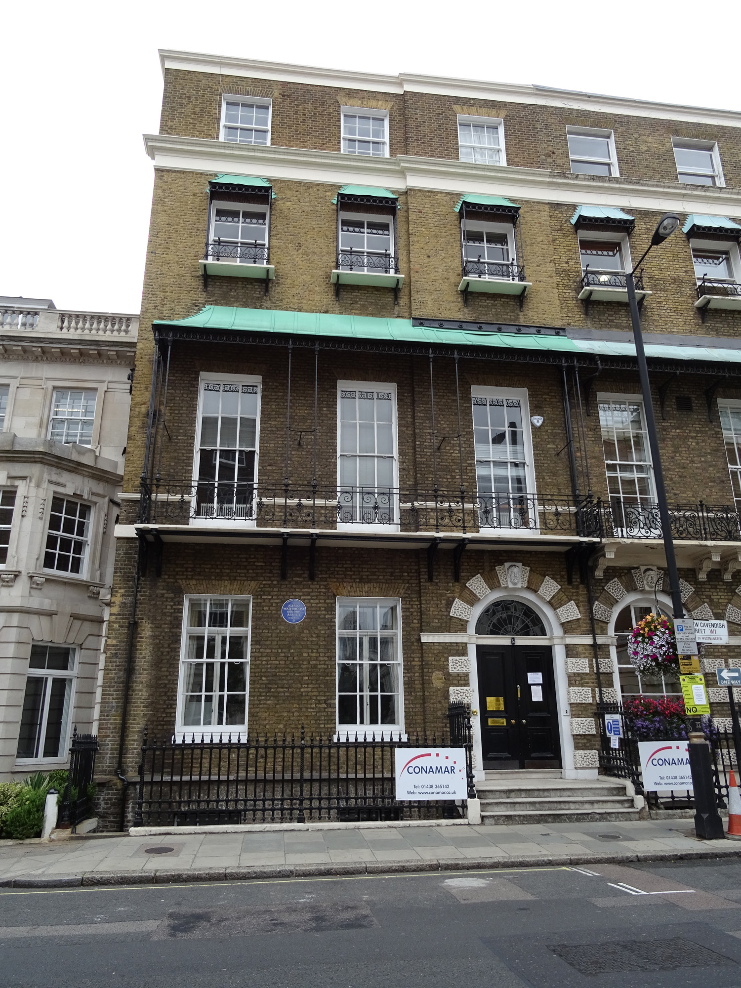 ALFRED WATERHOUSE 1830–1905 Architect lived here